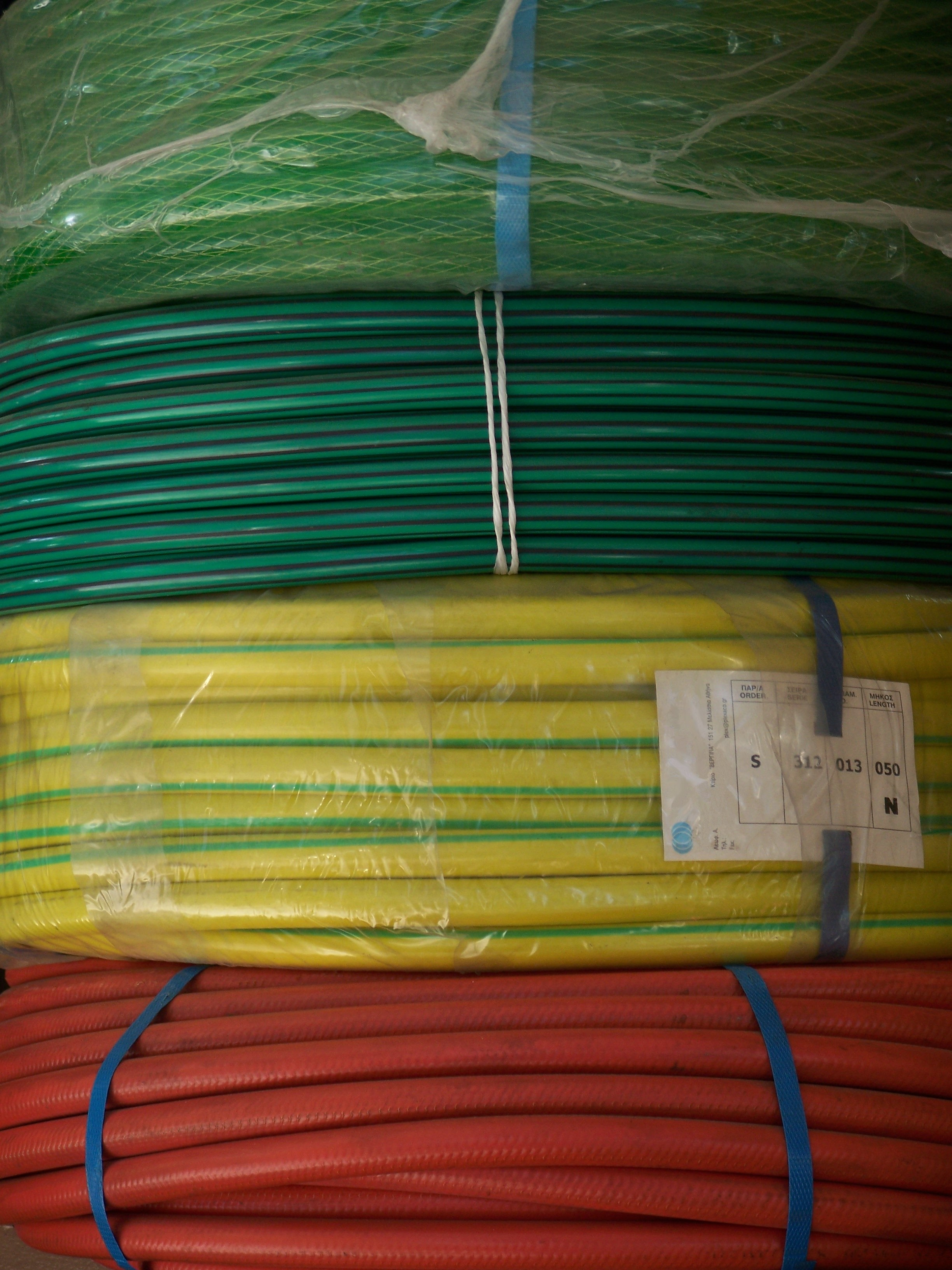 Various kinds of plastic water hoses at a hardware store in Athens.